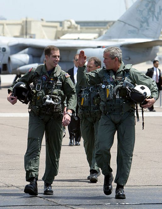 President George W. Bush walks across the tarmac with NFO Lt. Ryan Phillips to Navy One, an S-3B Viking jet, at Naval Air Station North Island in San Diego Thursday, May 1, 2003. Flying to the USS Abraham Lincoln, the President will address the nation and spend the night aboard ship.